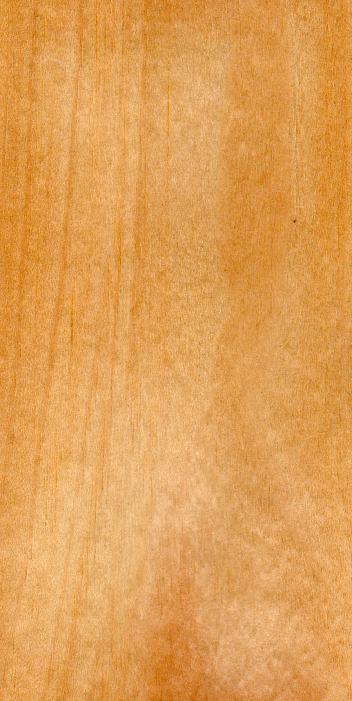 Wood of Pinus strobus